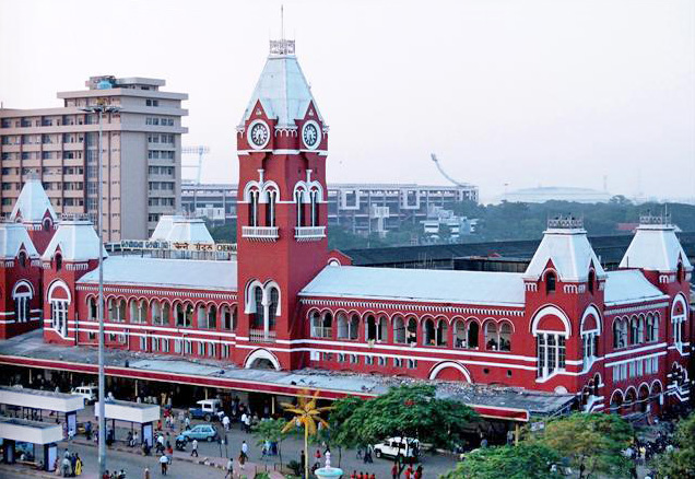 Chennai Central in Chennai, India.